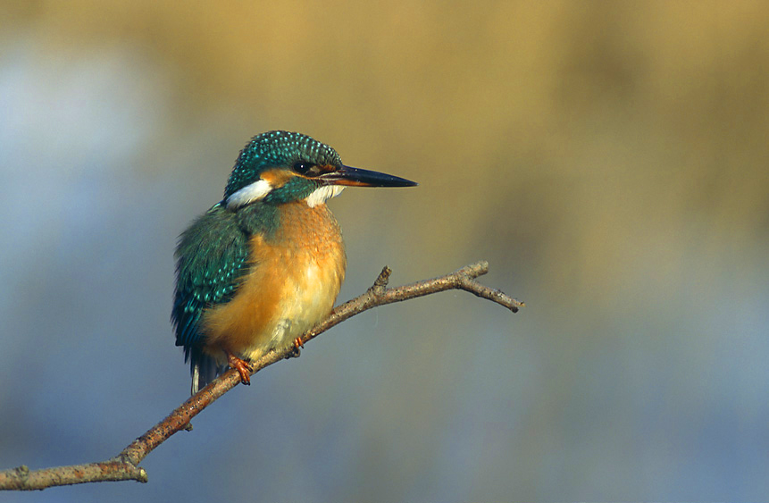 Alcedo atthis